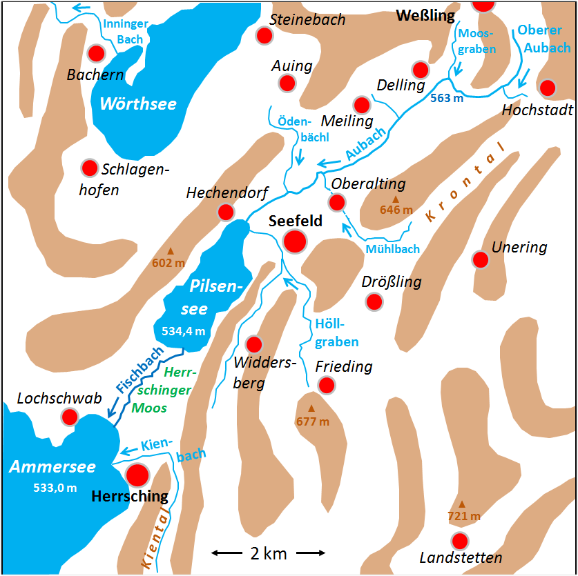 Course of the Fischbach creek